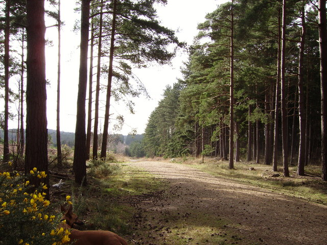 Track through Swinley Forest, near to Crowthorne, Bracknell Forest, Great Britain.